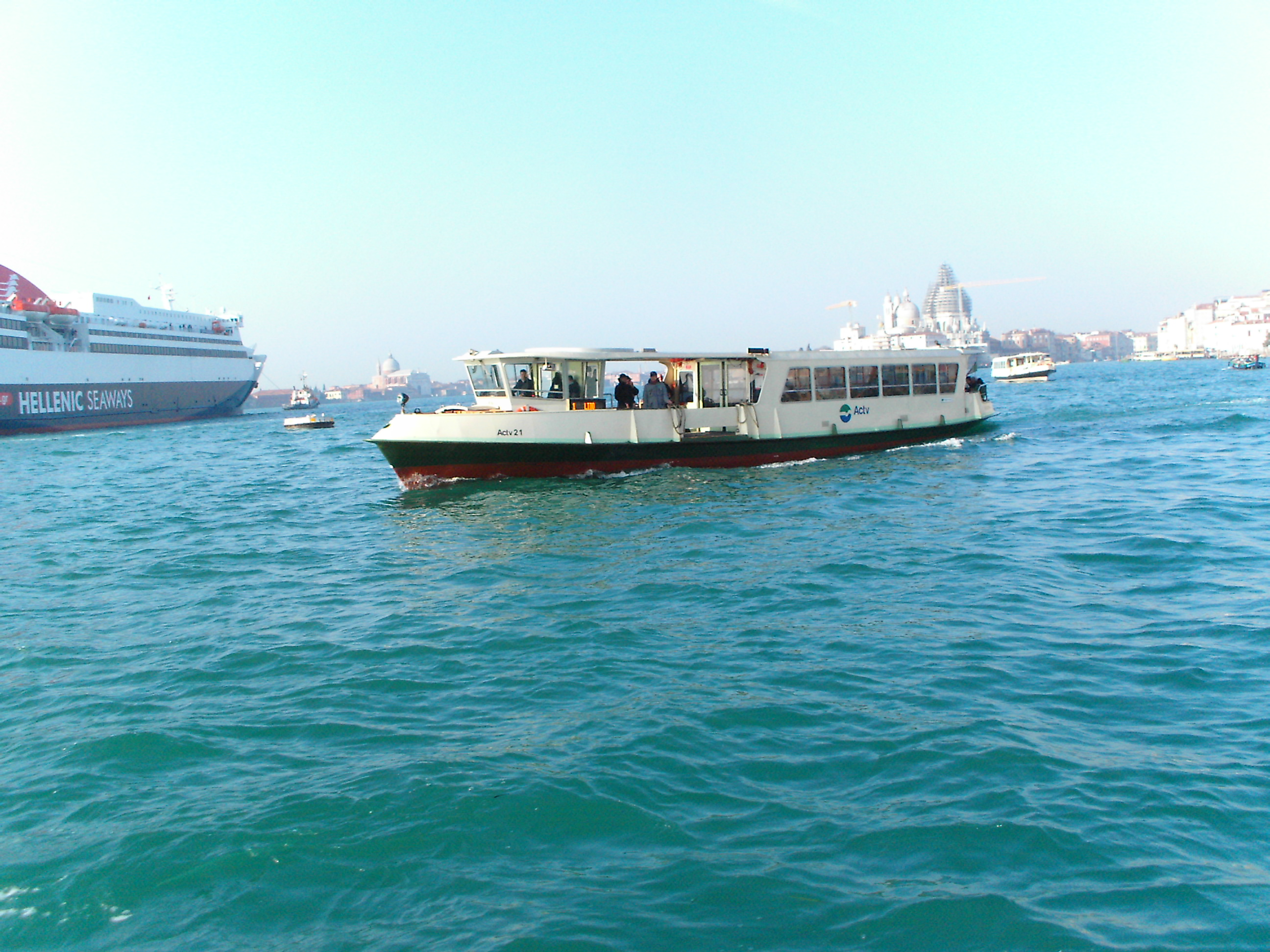 Vaporetto n°21, new type, of public service (ACTV) in Venice